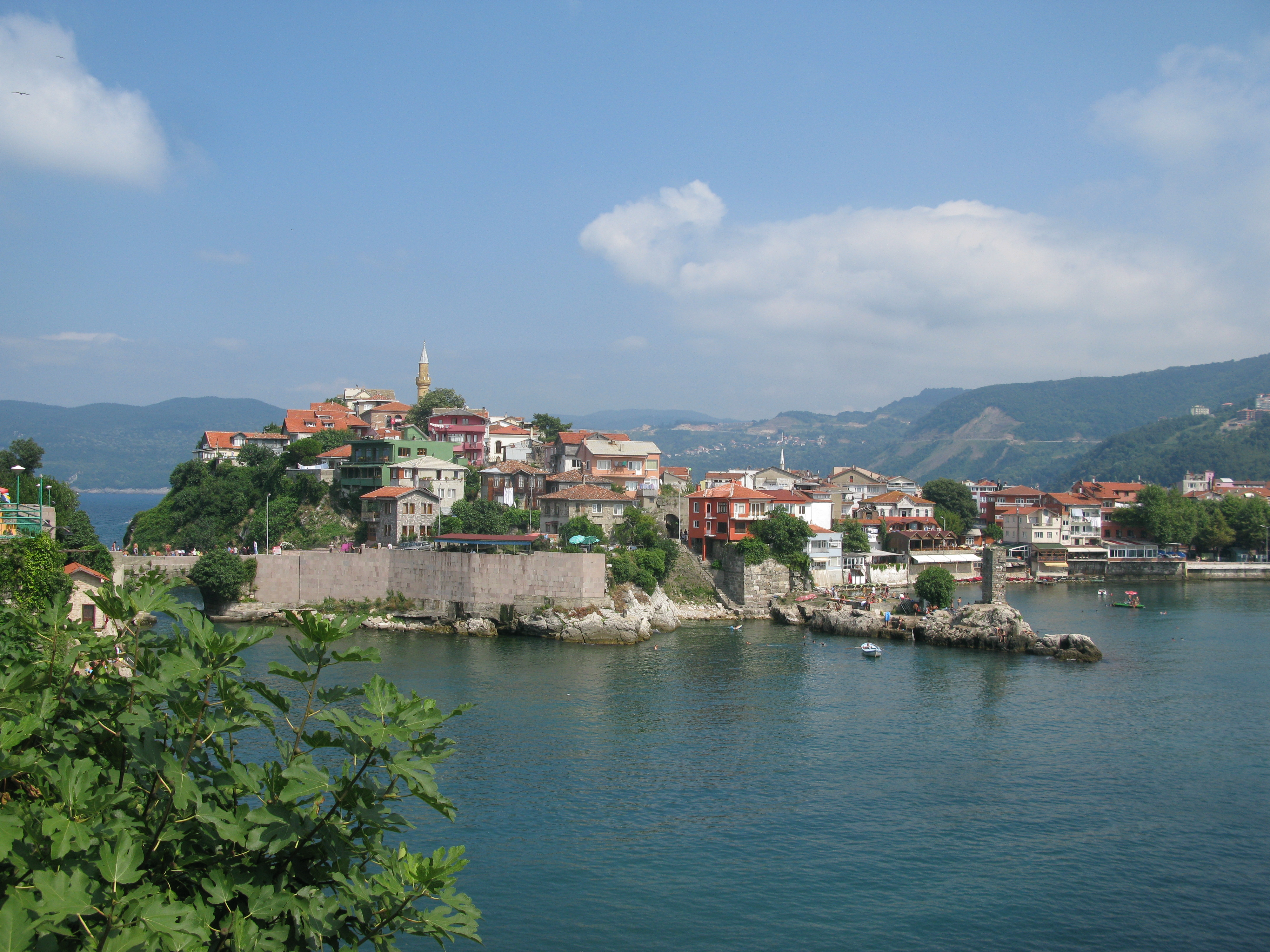 Castle in Amasra, Turkey. Image taken from the island.